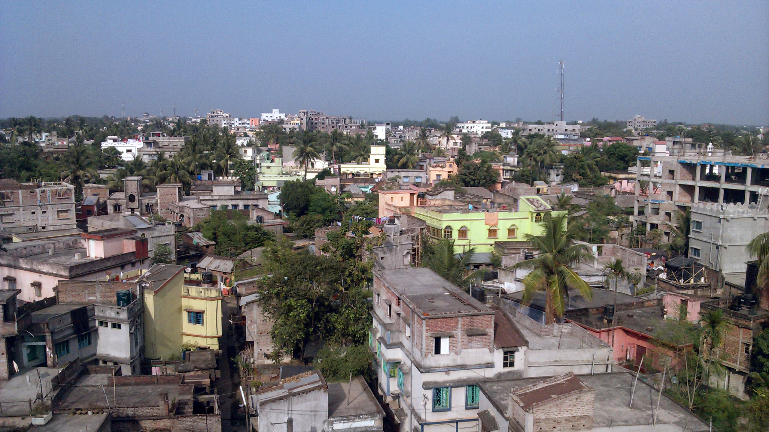 Its a town scape of Rampurhat from an elevated position.